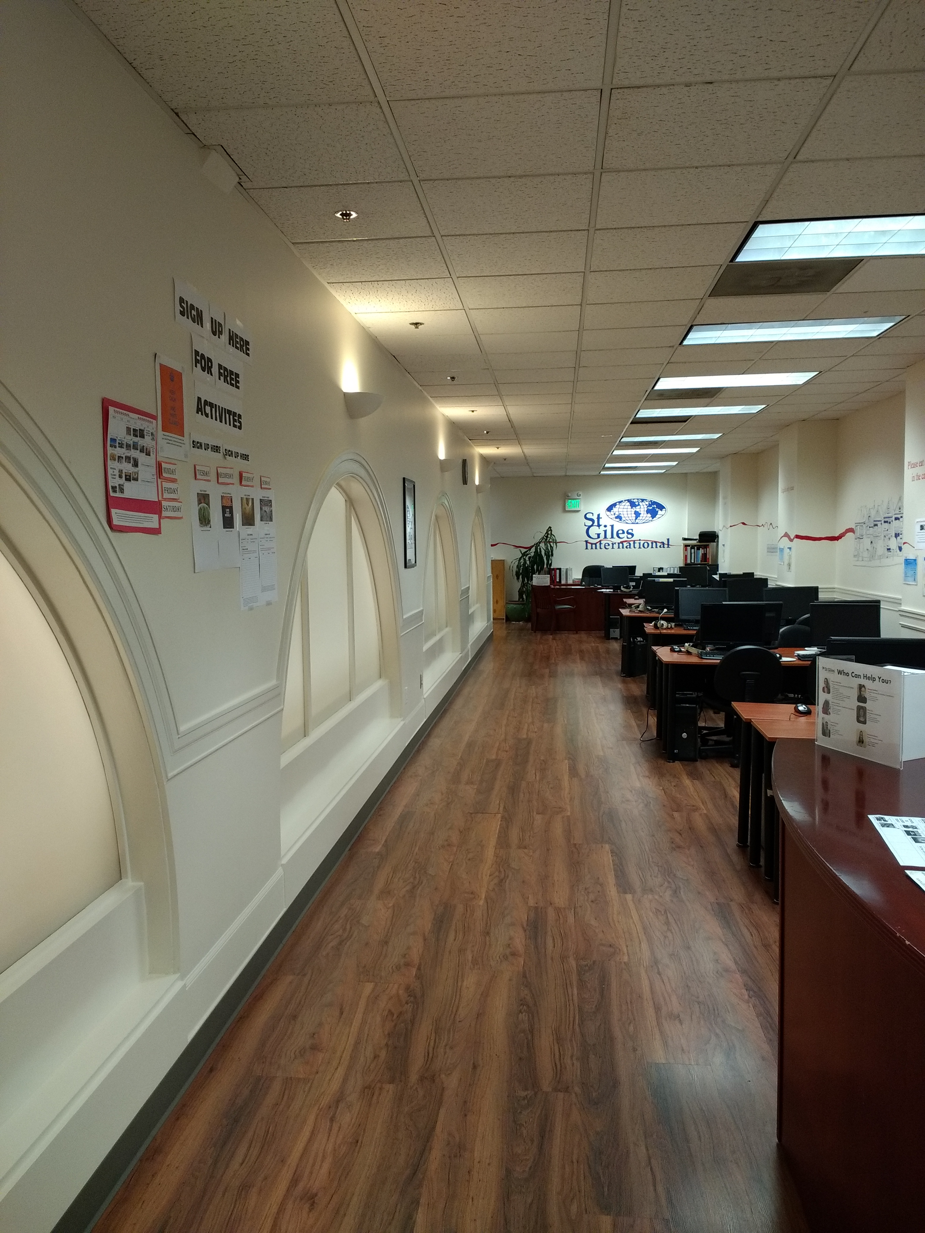 A room at the San Francisco branch of St Giles International.